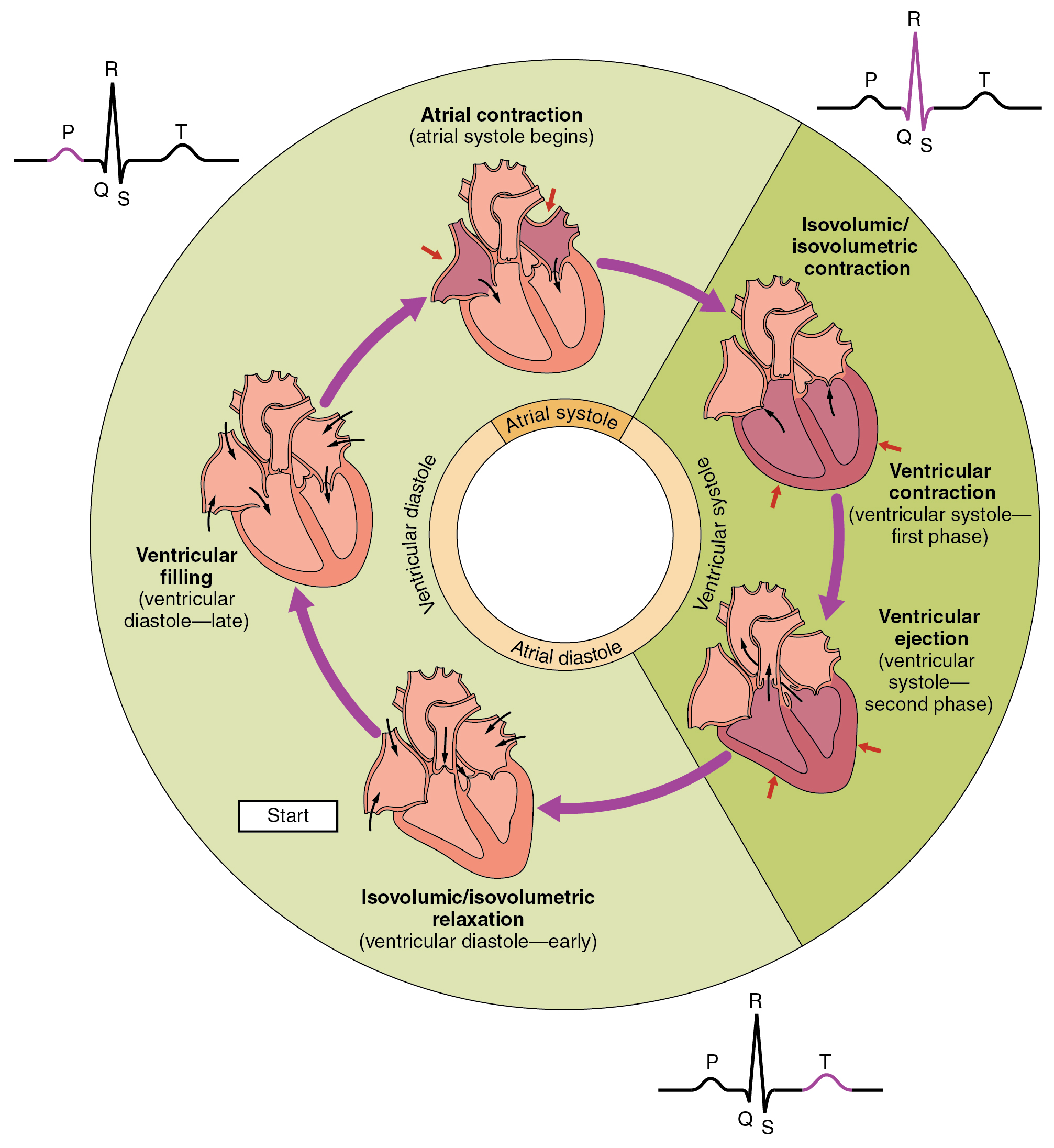 Diagram describing the phases of the human cardiac cycle..